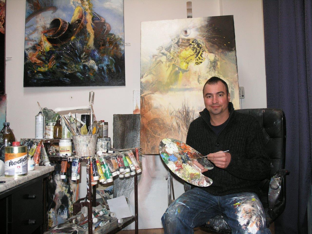 Martin Vavrys (* May 5, 1978 in Uherské Hradiště, Czech republic) is an artistic designer, painter and sculptor. His father is Czech academic painter and illustrator Pavel Vavrys. His mother is painter Marta Vavrys. His grandfather is an academic sculptor Evžen Macků. Evžen Macků is a descendant of the Czech painter Josef Mánes.